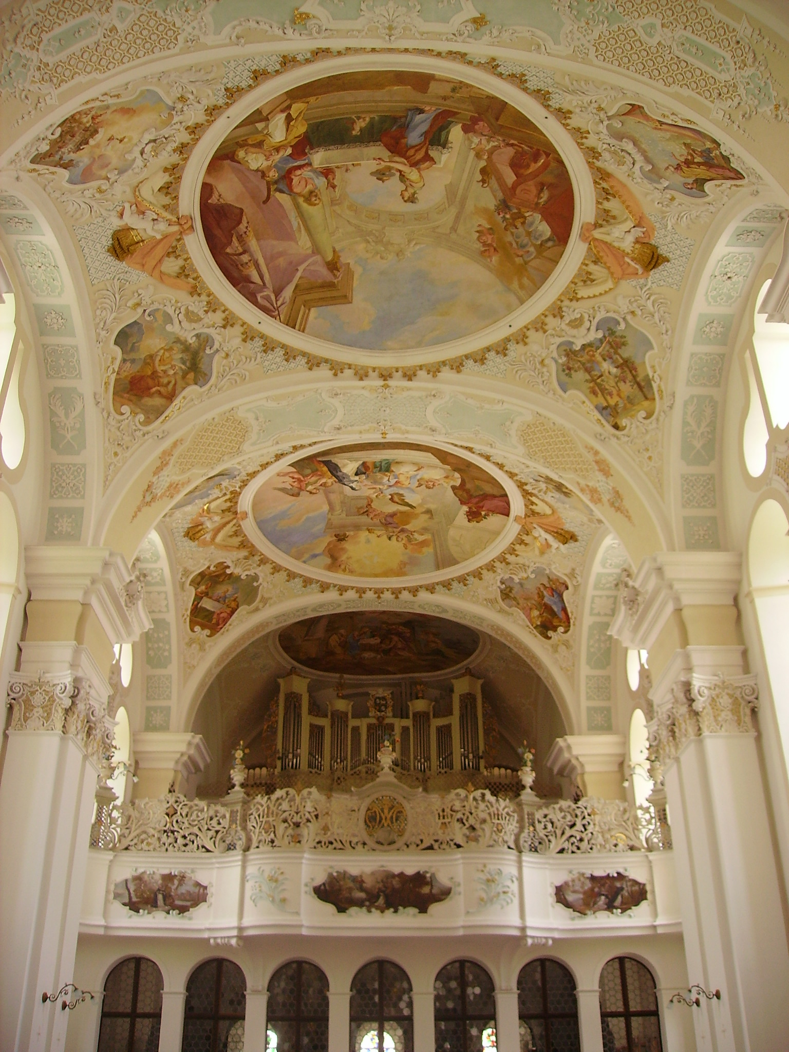 Interior of Sießen Monastery's Church St. Martin, Bad Saulgau